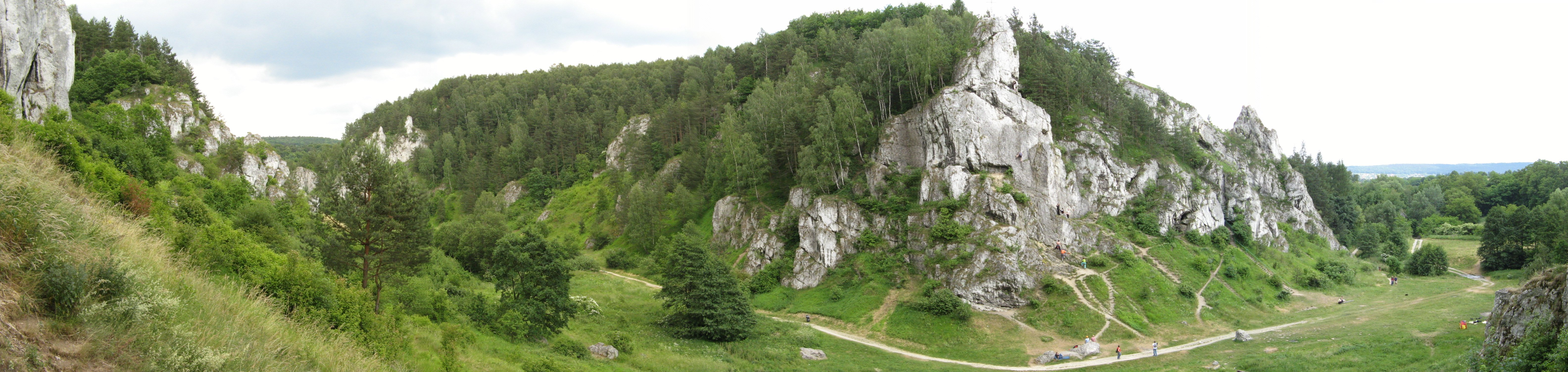 Kobylańska Valley